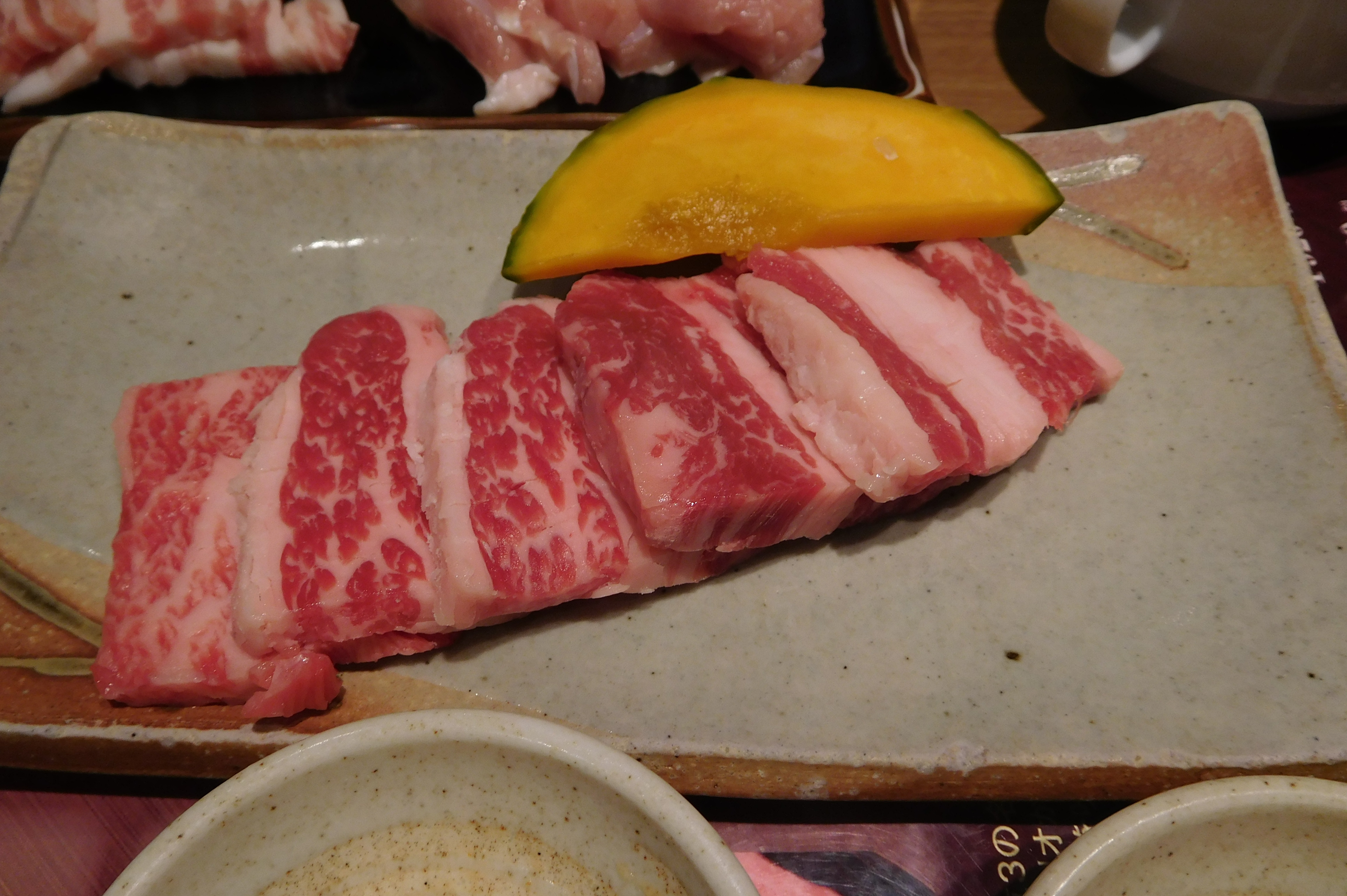 This is Yakiniku of Iga Beef, Japanese brand beef produced in Iga region, Mie prefecture, Japan. This beef was provided by Yakiniku Restaurant Okuda in Nabari, Mie, Japan.